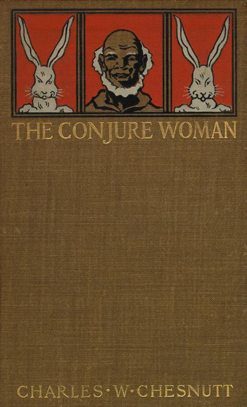 Book cover from The Conjure Woman, a collection of short stories written by Charles Waddell Chesnutt. Published by Houghton, Mifflin and Company in 1899.